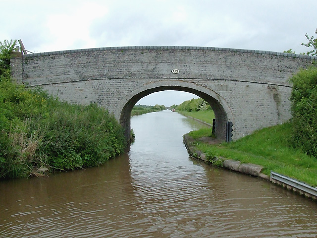 Austins Bridge (No 83) near Audlem, Cheshire The bridge carries a farm track, and a public footpath now designated as part of the South Cheshire The Shropshire Union Canal (formerly the Birmingham and Liverpool Junction Canal) looking towards Hack Green, is very straight here. Straightness is a characteristic of the Shropshire Union Canal, which was built in the 1830s, when competition was growing from the railways, and routes had to be as short as possible. Thomas Telford managed this by building long embankments and digging long cuttings, a ploy which also reduced the need for so many locks which would delay the boats. It also meant a lot more work, and trouble with unstable embankments in some places, which still cause problems to this day.